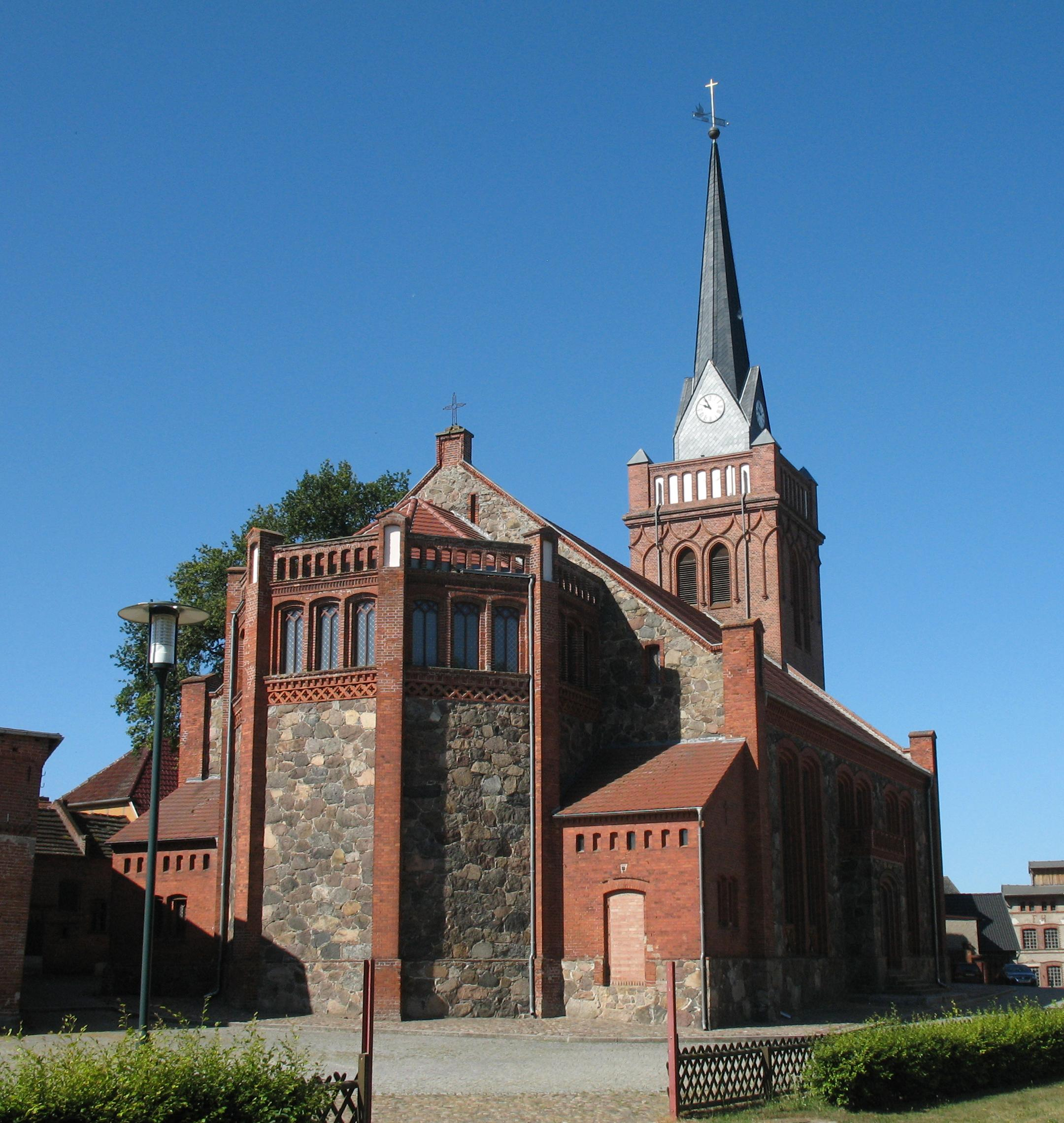 St Nicholas' Church in Putlitz in Brandenburg, Germany